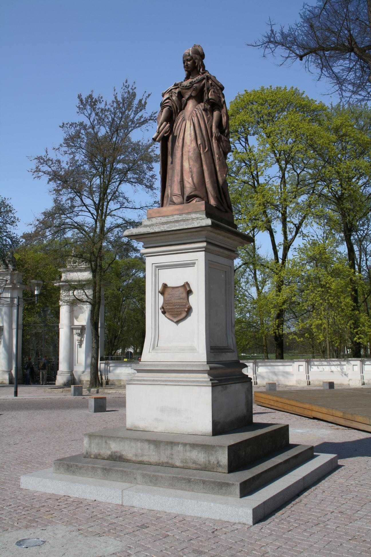 monument in Oranienburg to Luise Henriette of Nassau (1627-1667).Sculptor: Wilhelm Wolff (1816-1887) from Fehrbellin.